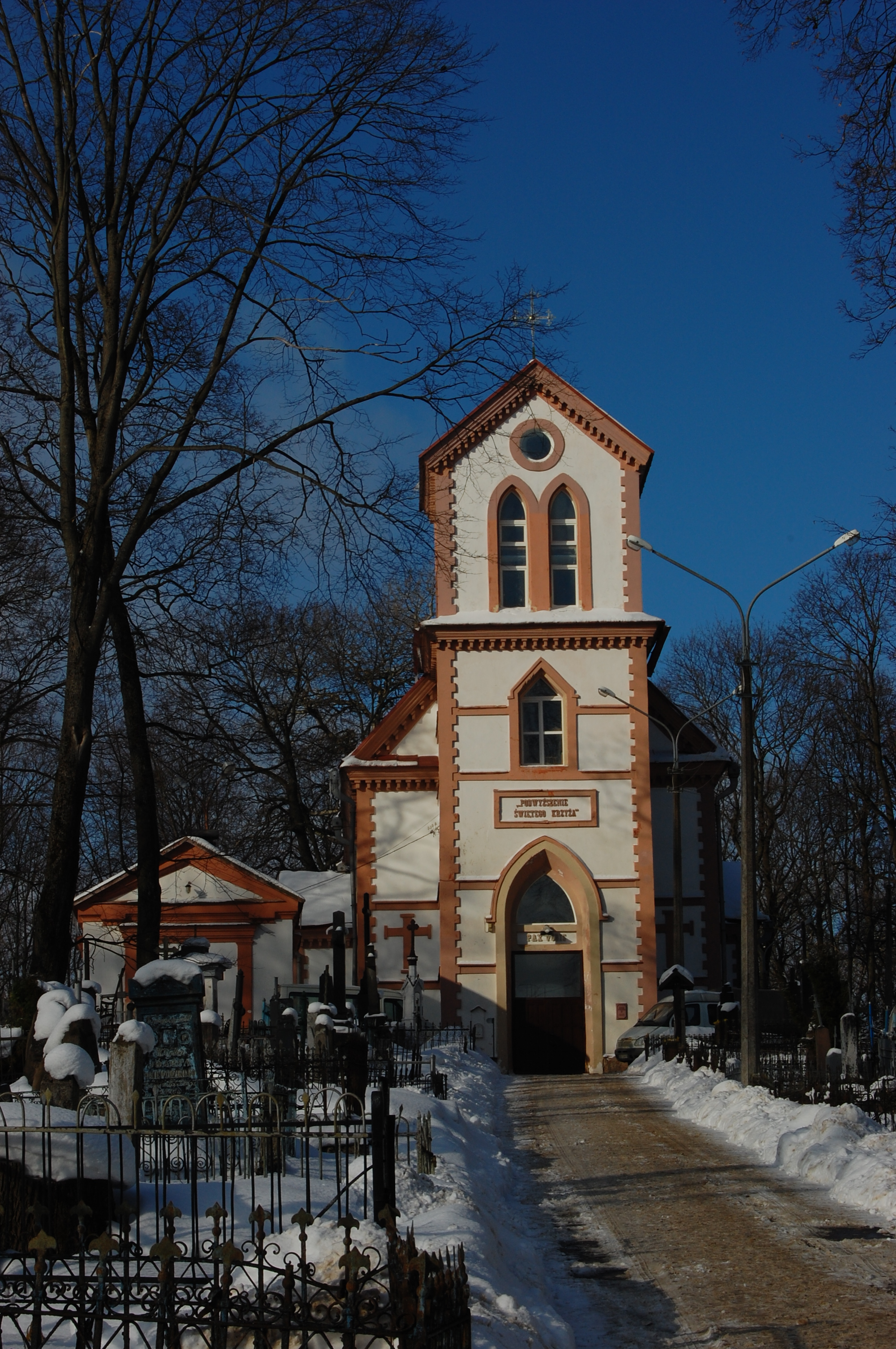 Church of the Exaltation of the Holy Cross. Calvary cemetery. Minsk, Belarus. Беларуская (тарашкевіца): Касьцёл Узьвіжаньня Сьвятога Крыжа. Кальварыйскія могілкі. Менск, Беларусь.